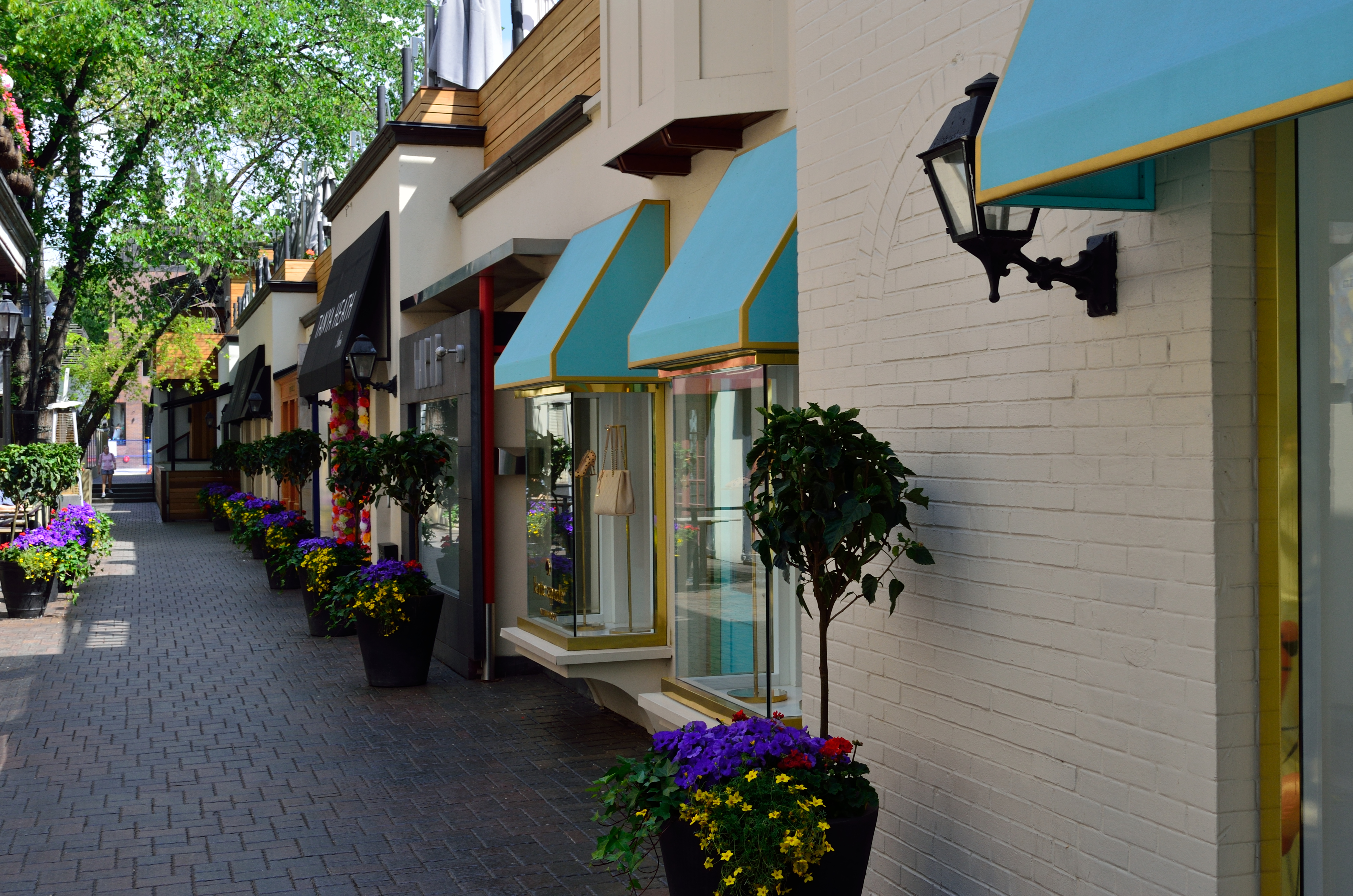 Old York Lane at Bloor Yorkville